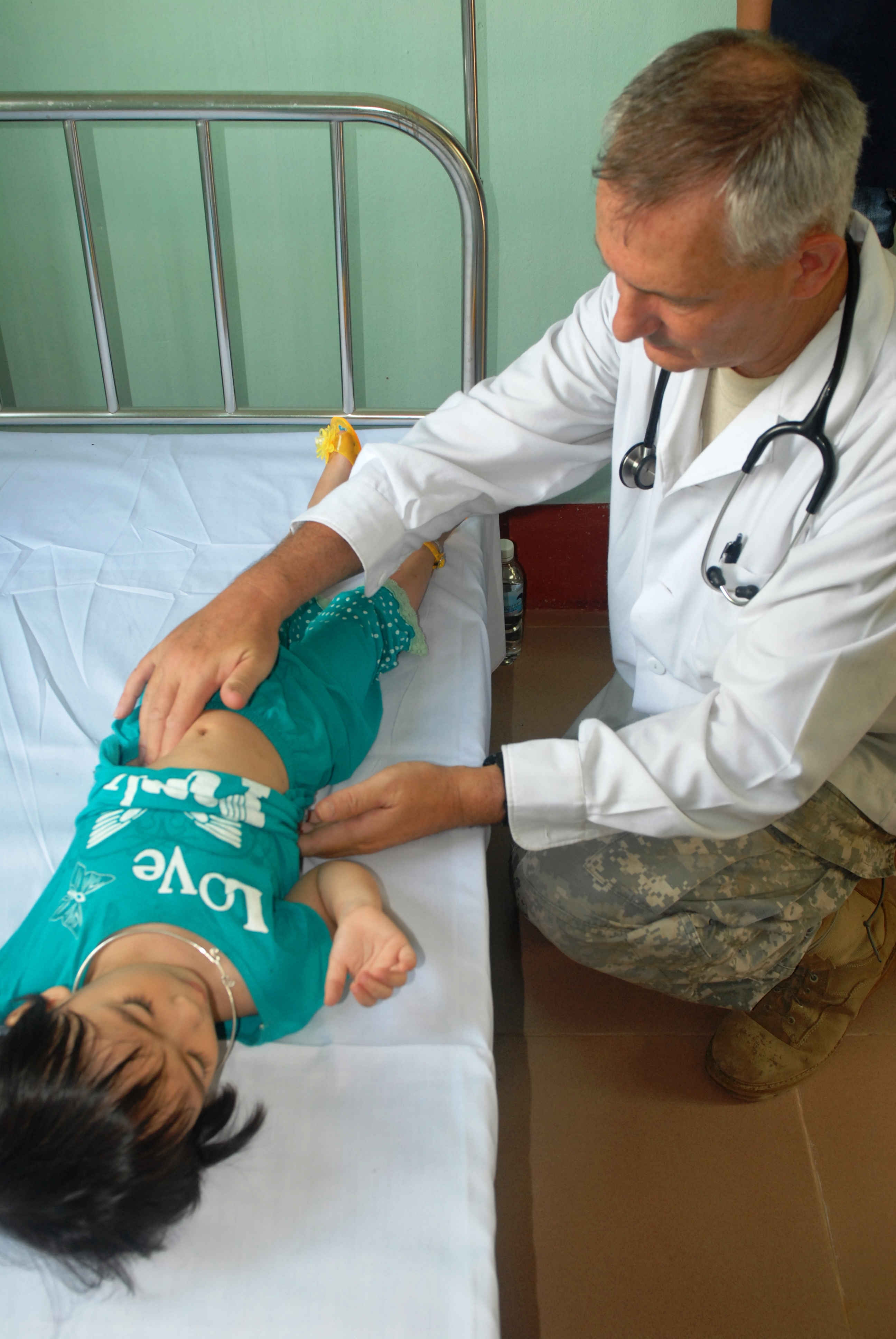 A United States Army doctor palpates a young Vietnames girl's abdomen in the bac Ninh Province of Vietnam, July 11.